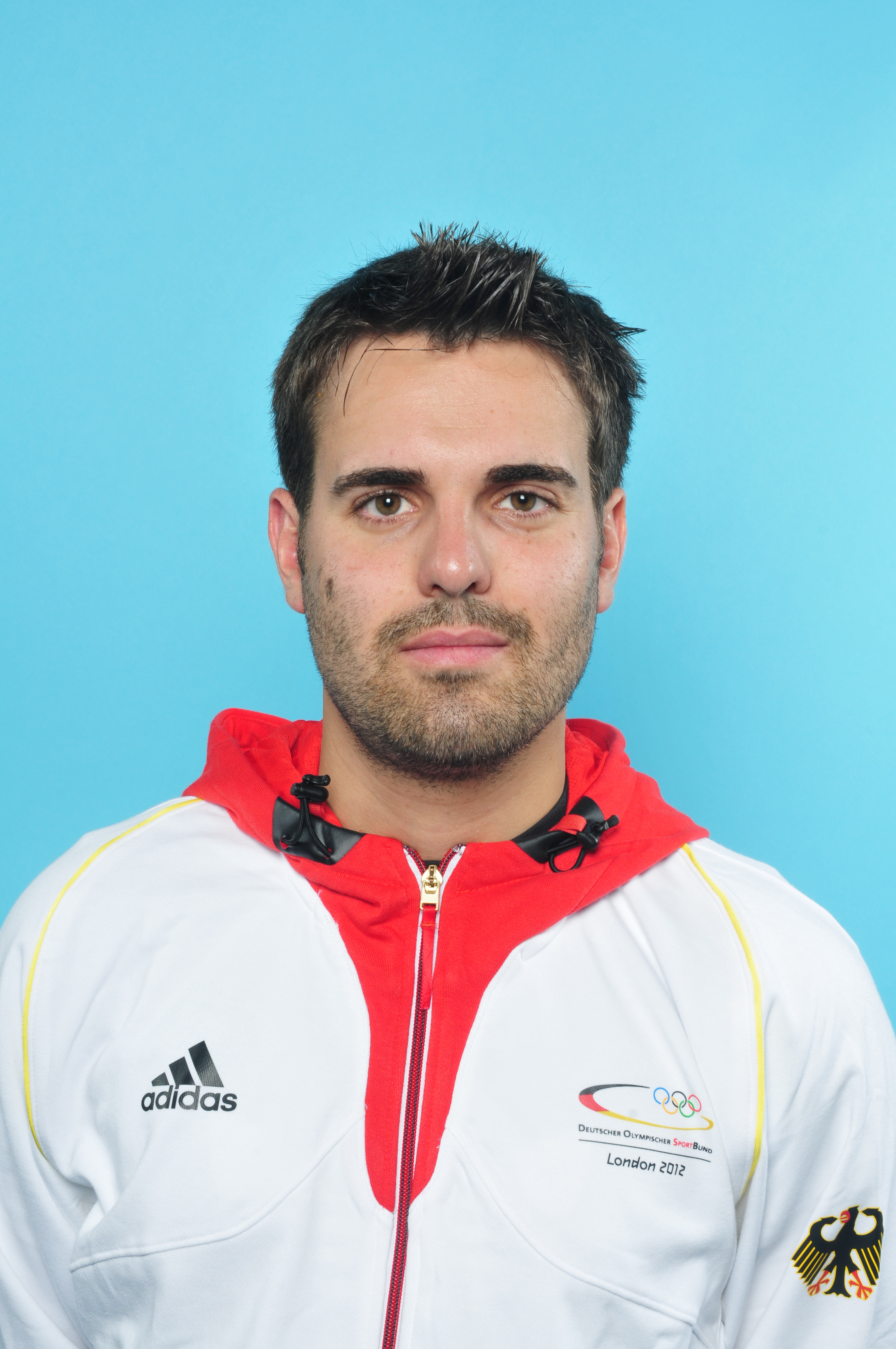 Julian Justus, a German sport shooter in the 2012 Summer Olympics London Einkleidung der deutschen Olympiamannschaftam 28. Juni 2012 in Mainz - Olympische Sommerspiele 2012 Cirdan Marcus Cyron Olaf Kosinsky Ralf Roletschek Sven Teschke